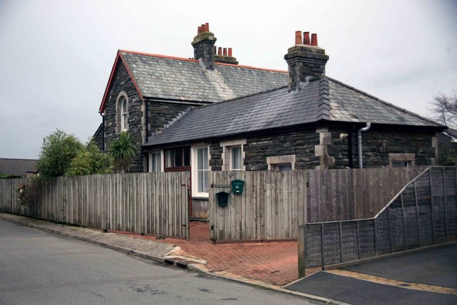 Delabole Station house Now called "the waiting room " it would be a long wait for a train here. The last one left October 1966. A long time ago.